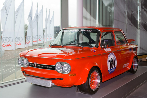 Taken in Audi Forum in Ingolstadt, Germany in April 2006.